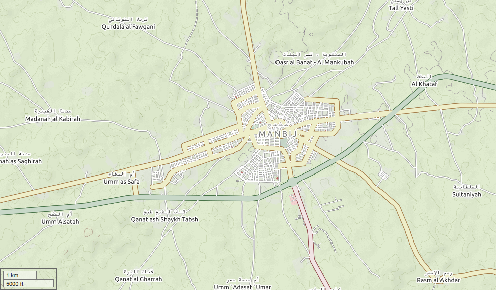 Map of Manbij with surroundings.